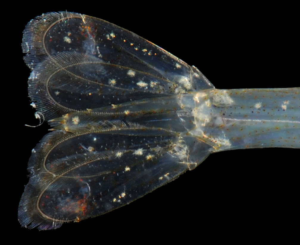 Palaemon paludosus, eastern grass shrimp, telson. Notice position of spines, posterior pair roughly equidistant from anterior pair and posterior margin of telson, and red coloration. These characteristics can help differentiate from P. kadiakensis. Purchased from Aquarium store in MD, sourced from Florida. Photo by Robert Aguilar, Smithsonian Environmental Research Center.